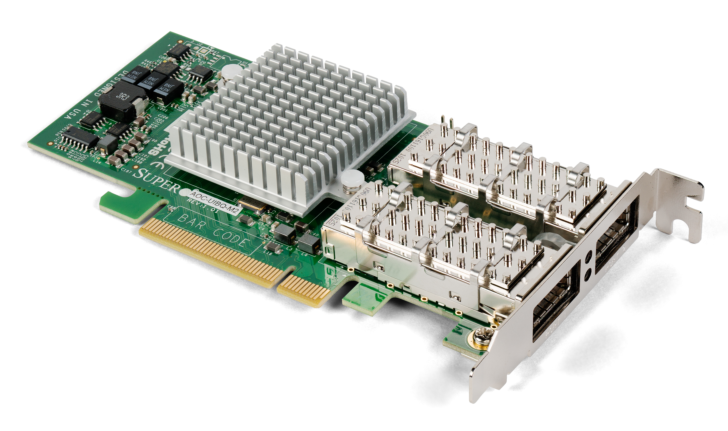 Supermicro AOC-UIBQ-M2 dual port QDR InfiniBand HCA. Mellanox ConnectX-2 chip, dual QSFP ports, PCI Express 2.0 x8 proprietary form-factor card.